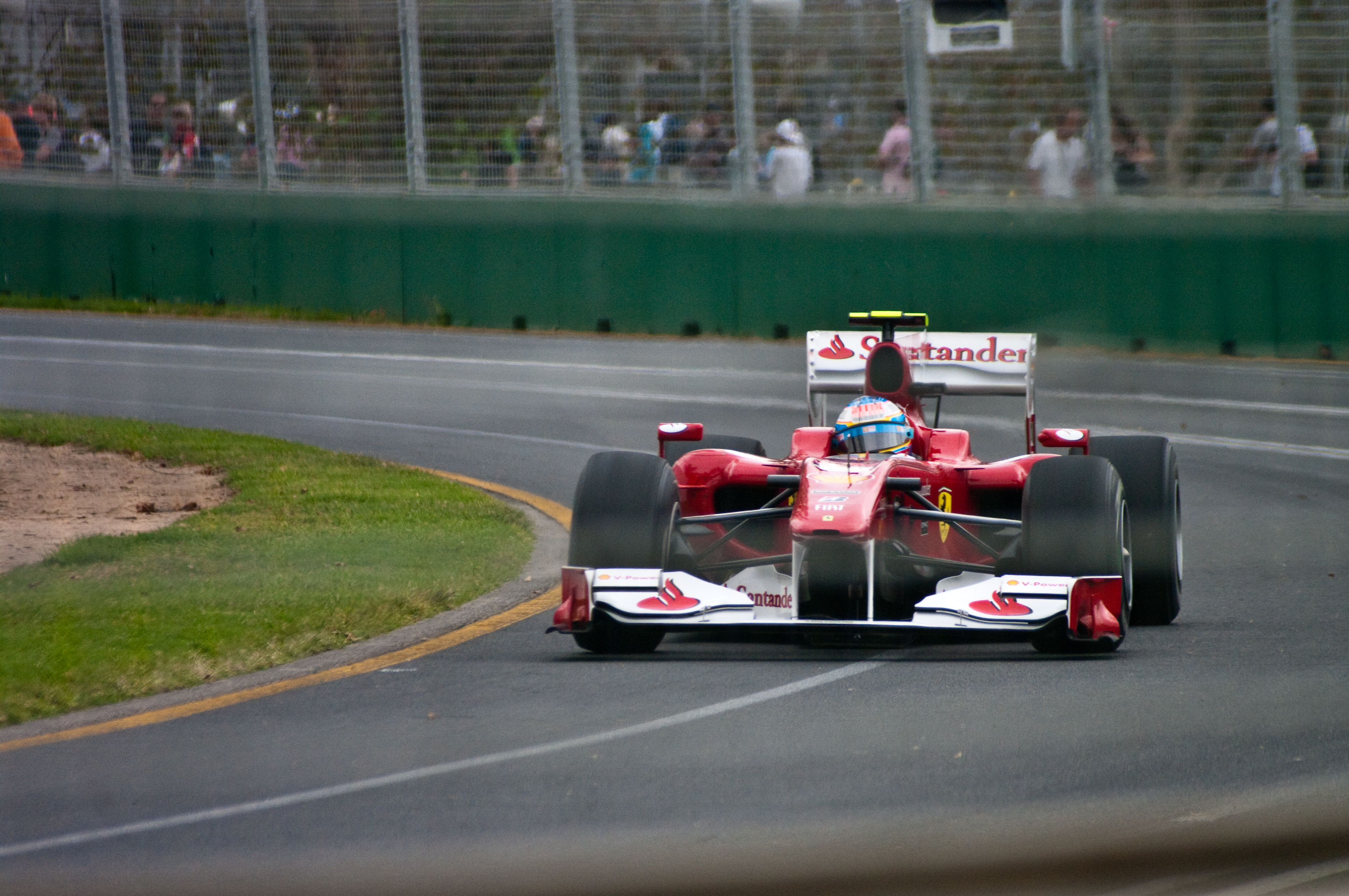 Fernando Alonso driving for Scuderia Ferrari at the 2010 Australian Grand Prix.